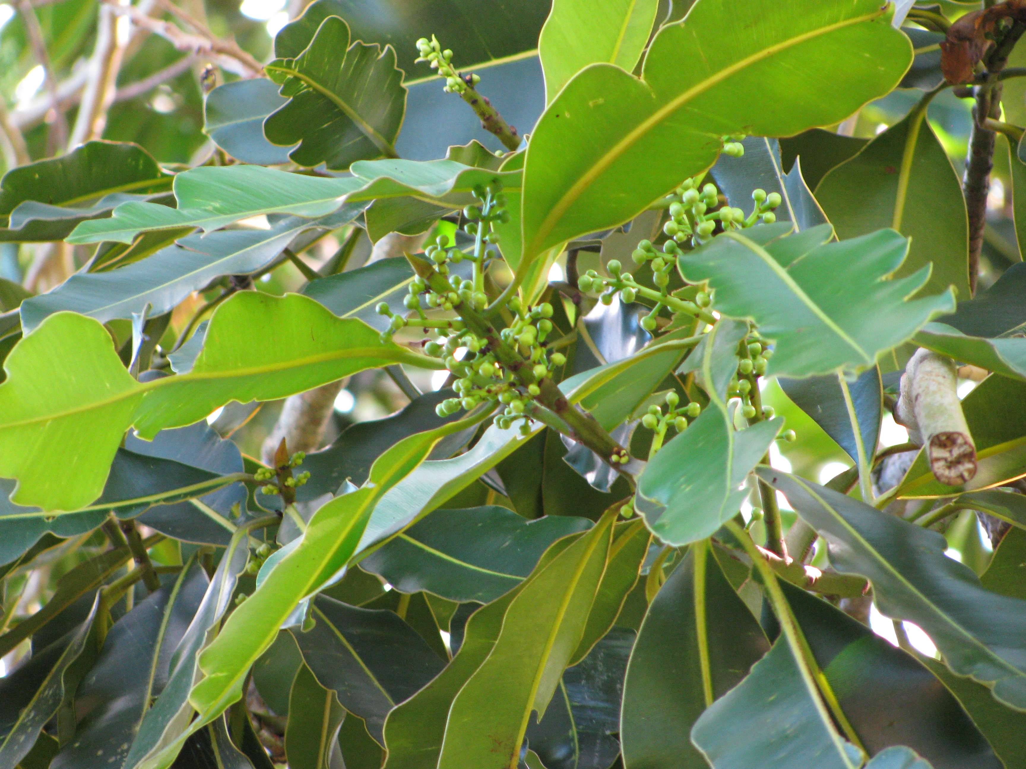 Flower buds and leaves of the tree Atuna racemosa subsp. racemosa at Kahanu Gardens, near Hana, Maui, Hawaii